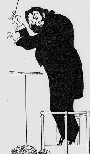 Caricature of Sir Henry J. Wood